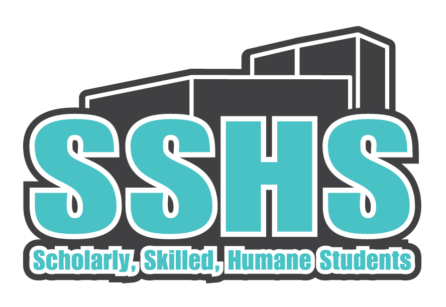 This is the SSHS logo created for our 2013 WASC.